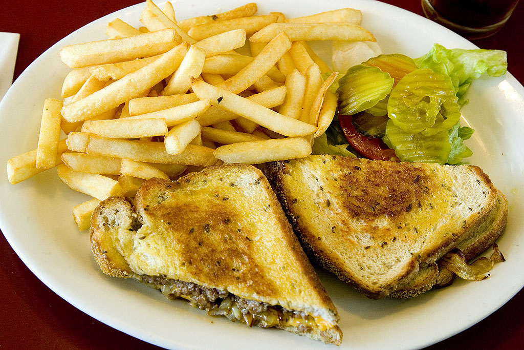 A patty melt sandwich on a plate with french fries and garnished with tomatoes, lettuce, and pickles, as served by Dina's Family Restaurant at 40800 Fremont Blvd in Fremont, California, USA